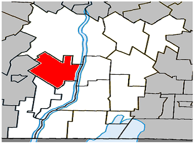 Location of Saint-Blaise-sur-Richelieu, Quebec within Le Haut-Richelieu Regional County Municipality.